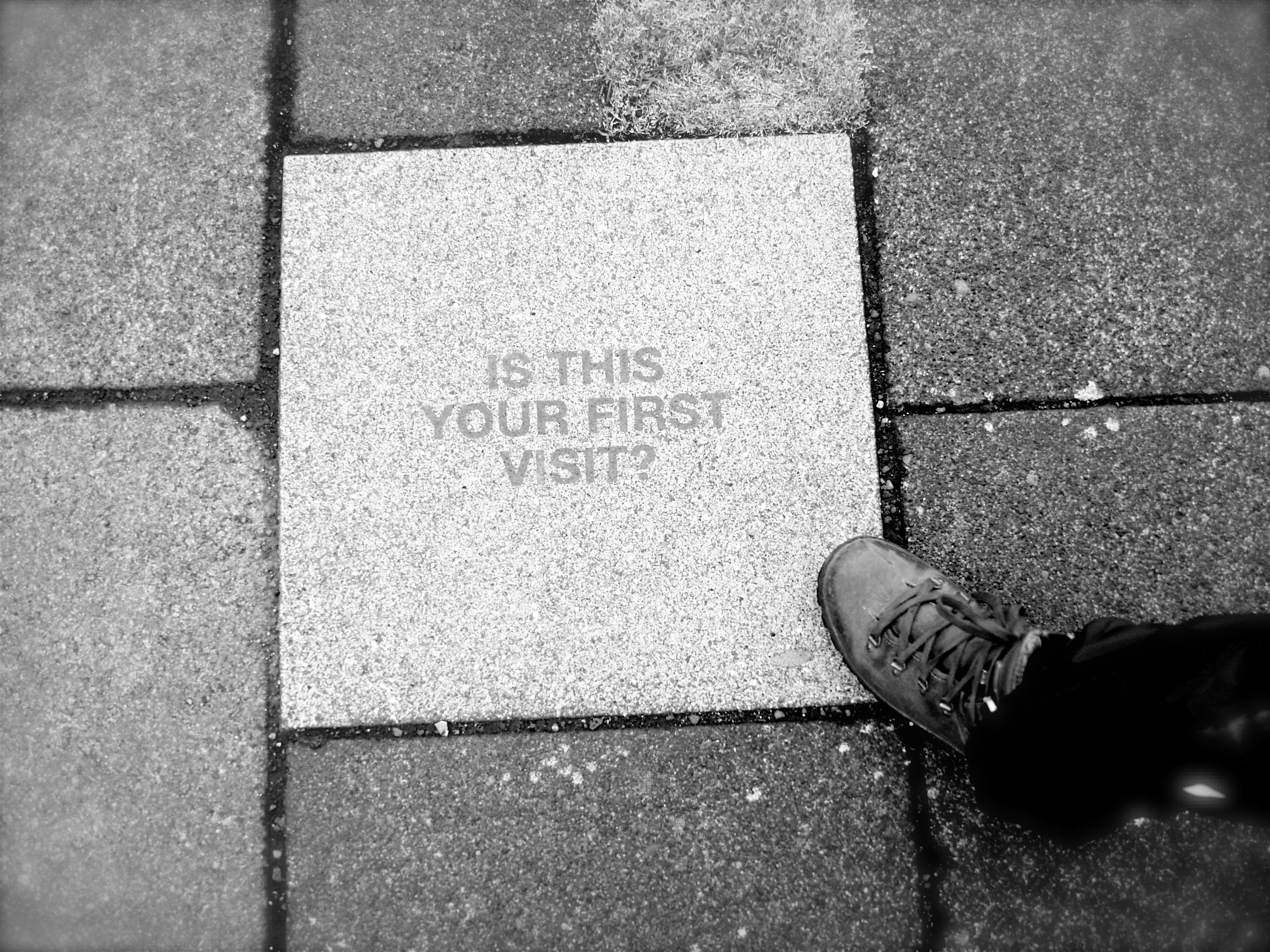 Text on a sidewalk in Heimaey. Iceland. July 2006.